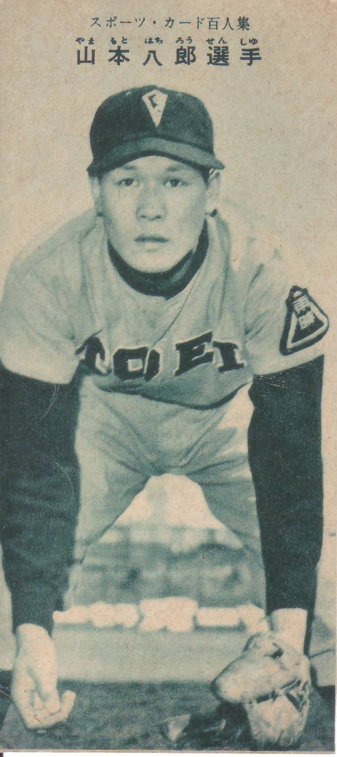 Sports Card of Hachiro Yamamoto (Toei Flyers). taken in 1959.